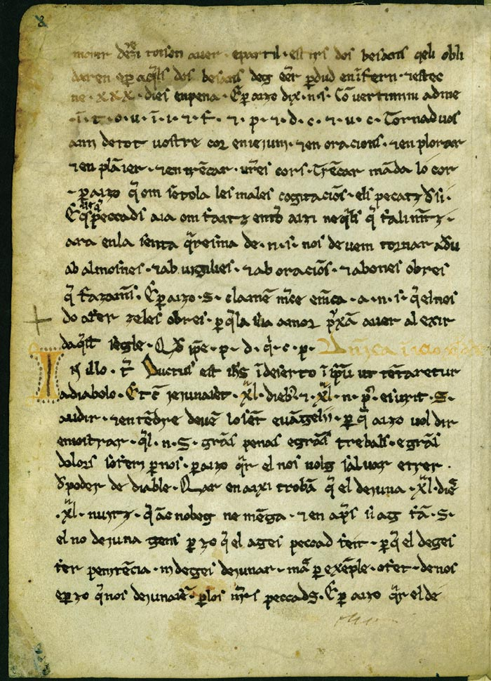 It is a page of the literary document Homilies d'Organyà.